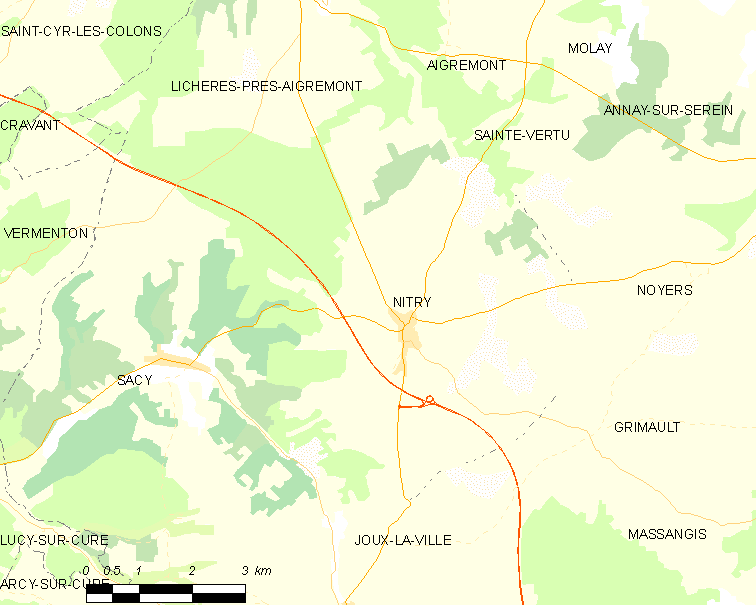 Map of French municipality Nitry